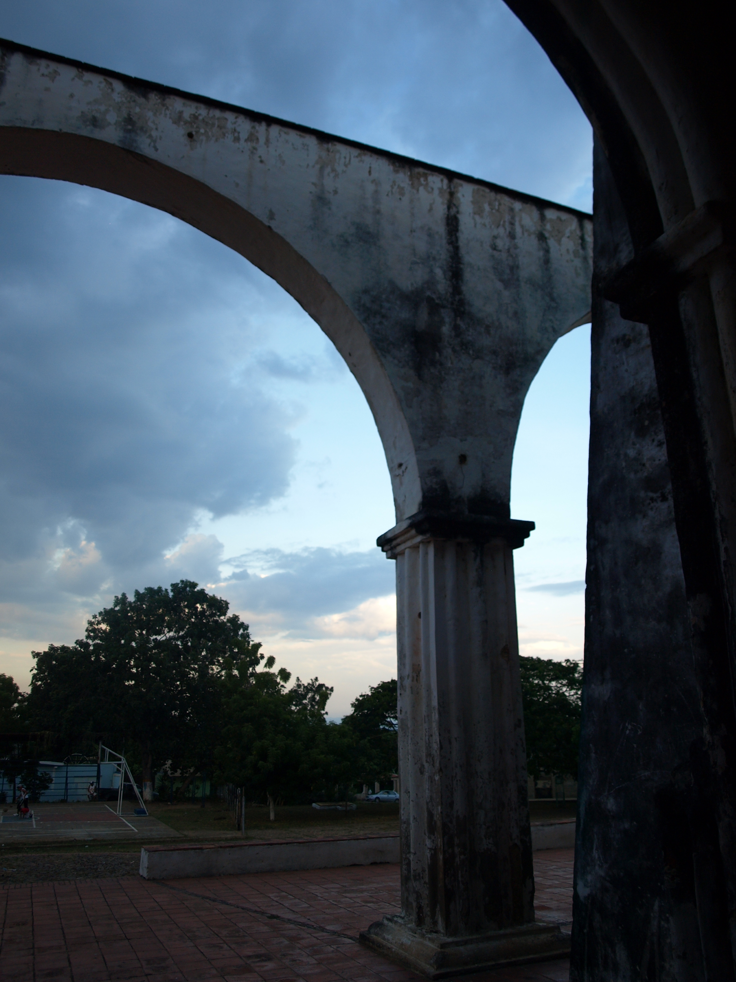 Salida sur de la iglesia de Clarines Edo Anzoátegui